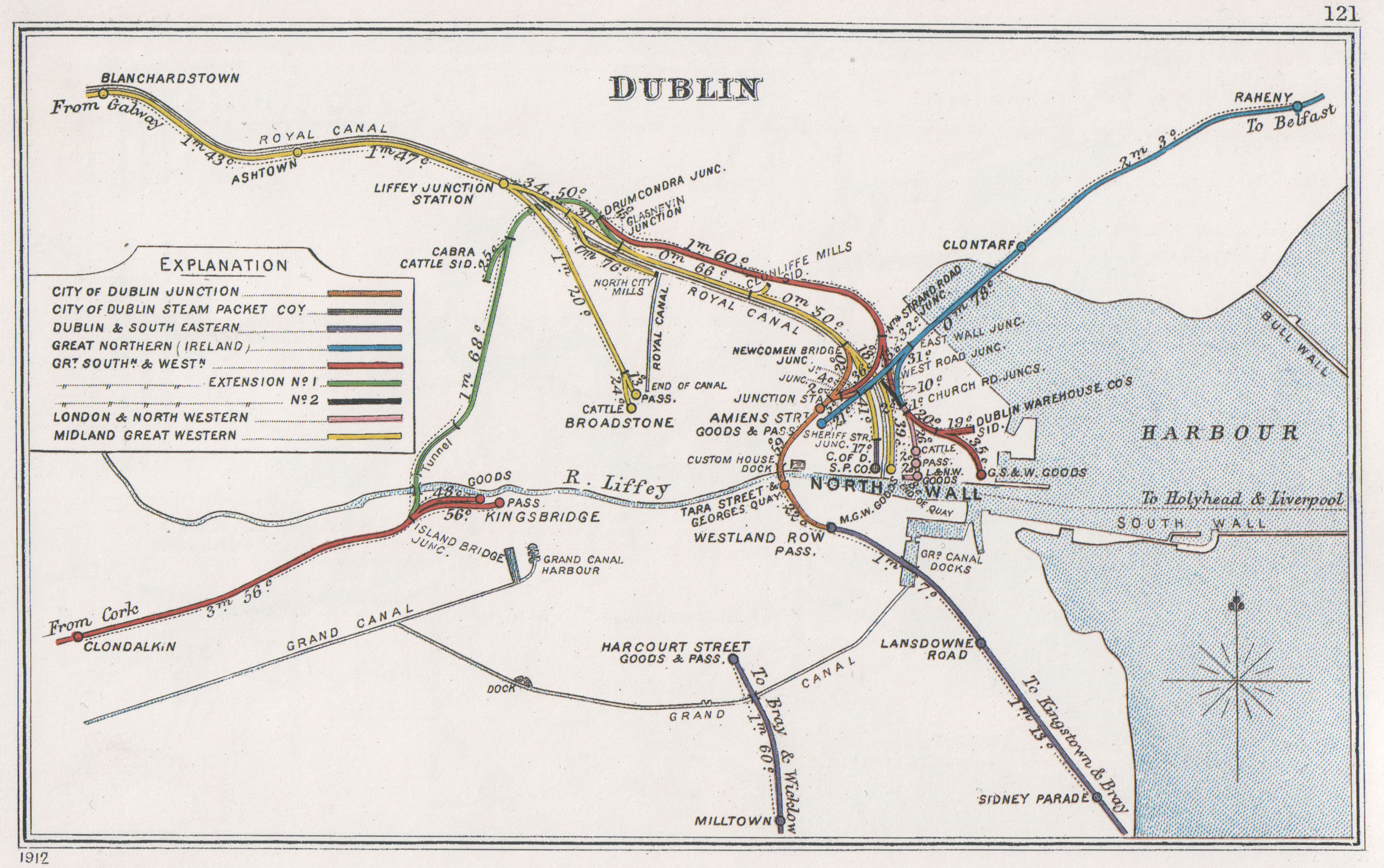 Railway Junctions in Dublin - showing all the mainlines rail systems and their termini and connections